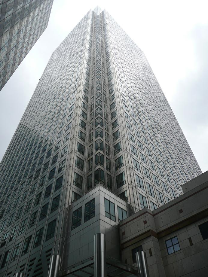 One Canada Square tower